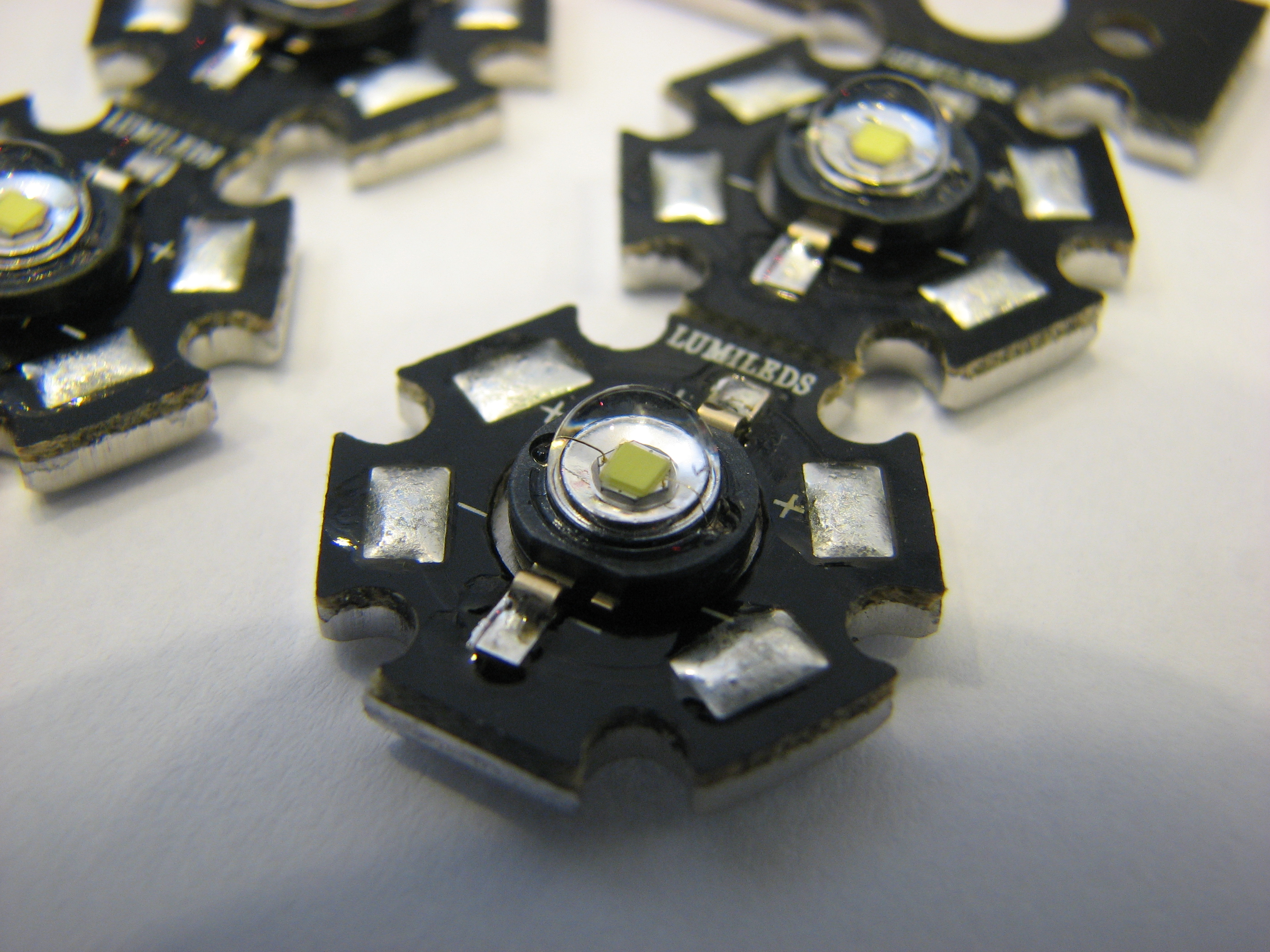 High-power light emitting diodes (Luxeon, Lumiled)